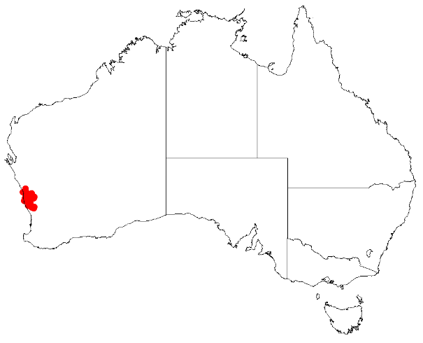 Conostylis hiemalis occurrence data from Australasian Virtual Herbarium downloaded 12 May 2017